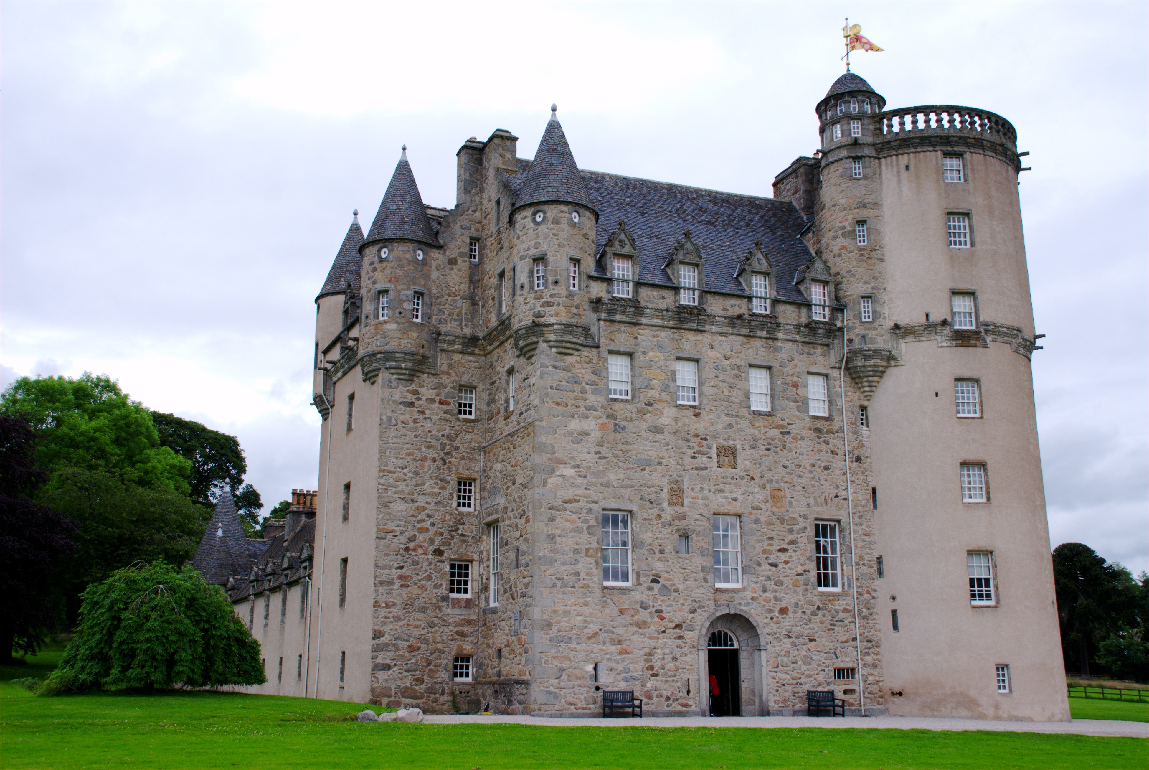 Castle Fraser